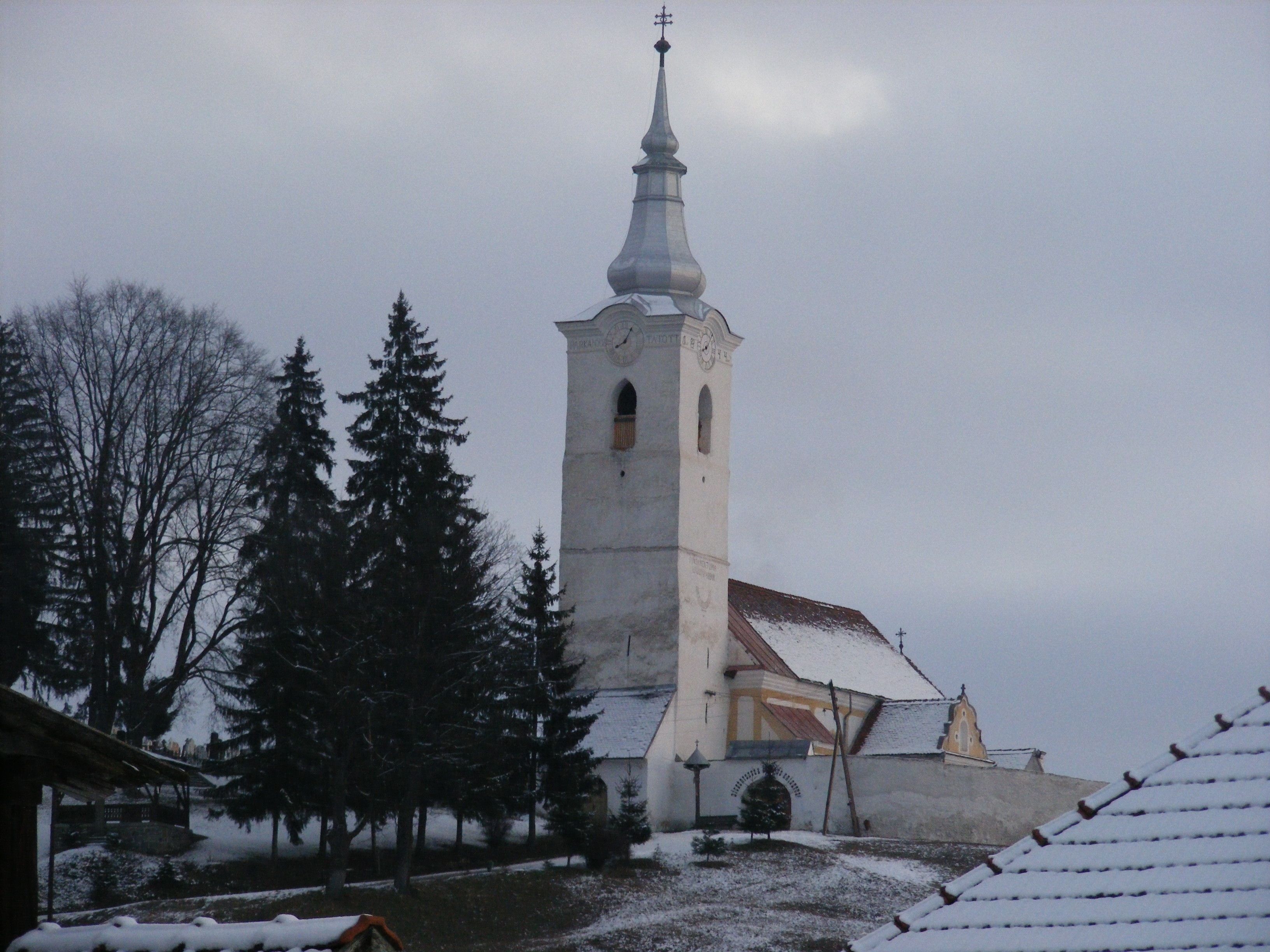 Lăzarea